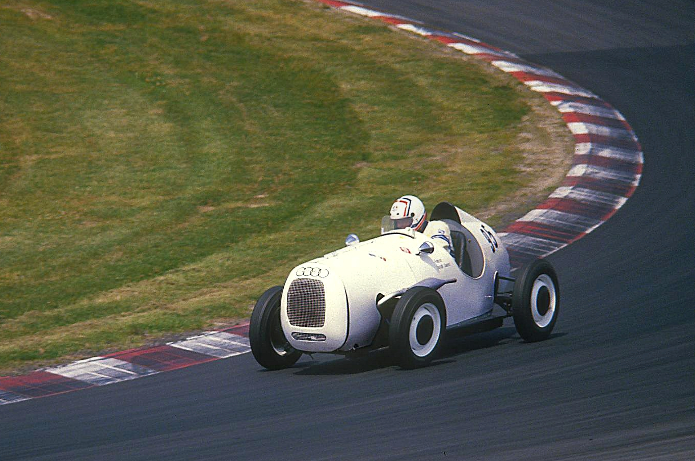 Race car self-made by Jakob Lauer (* 1912, † 2004) from the years 1947/48 with suspension, two-cylinder two-stroke engine and gearbox of a DKW F8, built in 1939; displacement of the engine 690 cc, power initially about 22 hp, later up to 40 hp. The photo was taken at the Oldtimer Grand Prix of the AvD 1989 at Nürburgring; at the wheel of the car Jakob Lauer